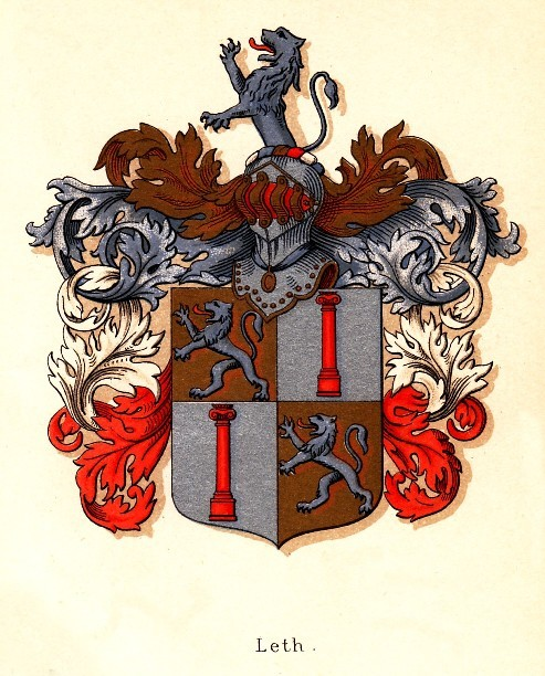 Coat of arms of the Leth af Vosborg family